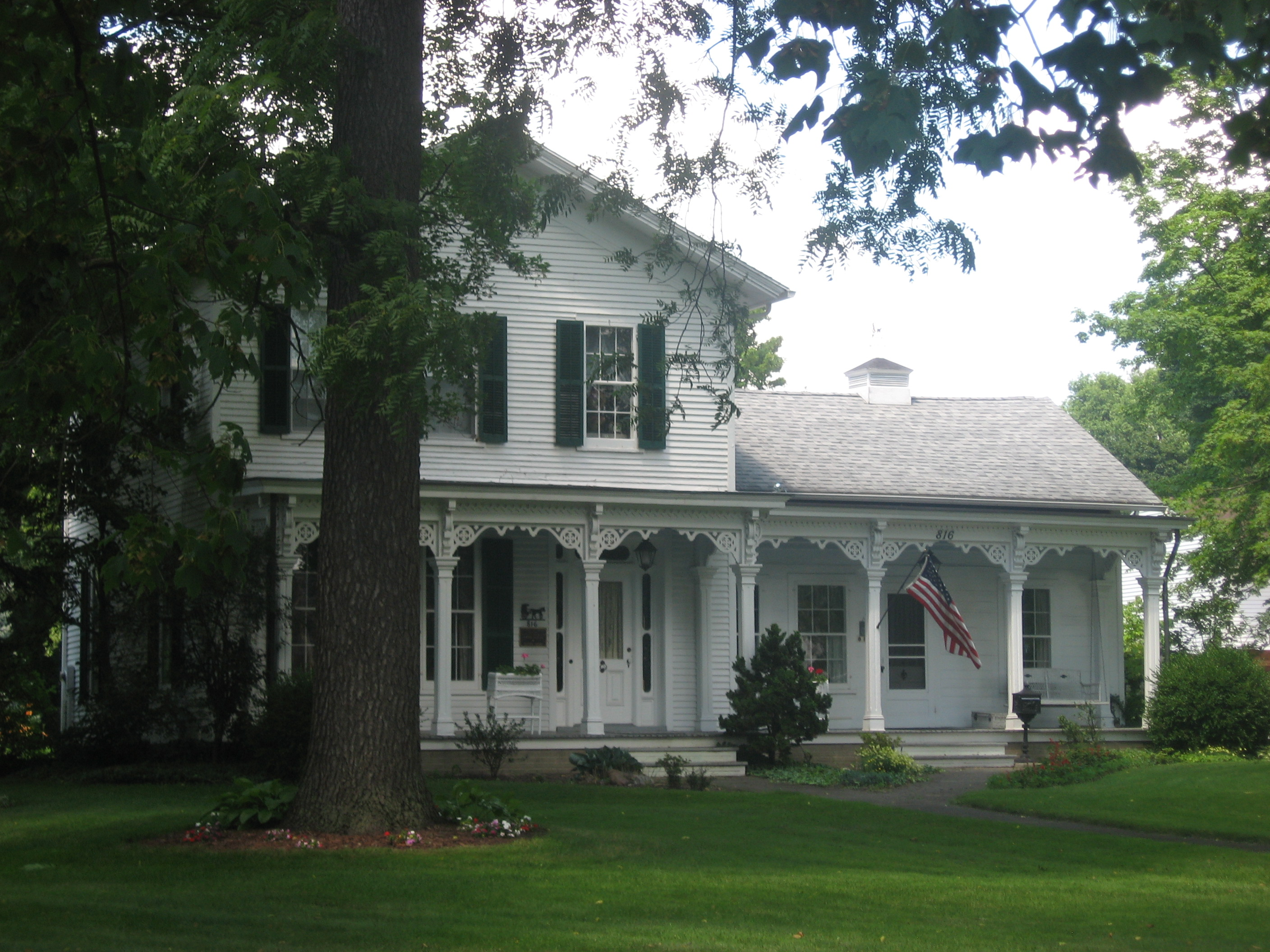 Front of the Merrifield-Cass House, located at 722 E. Lincolnway (State Road 933) in Mishawaka, Indiana, United States. Built in 1837, it is listed on the National Register of Historic Places.